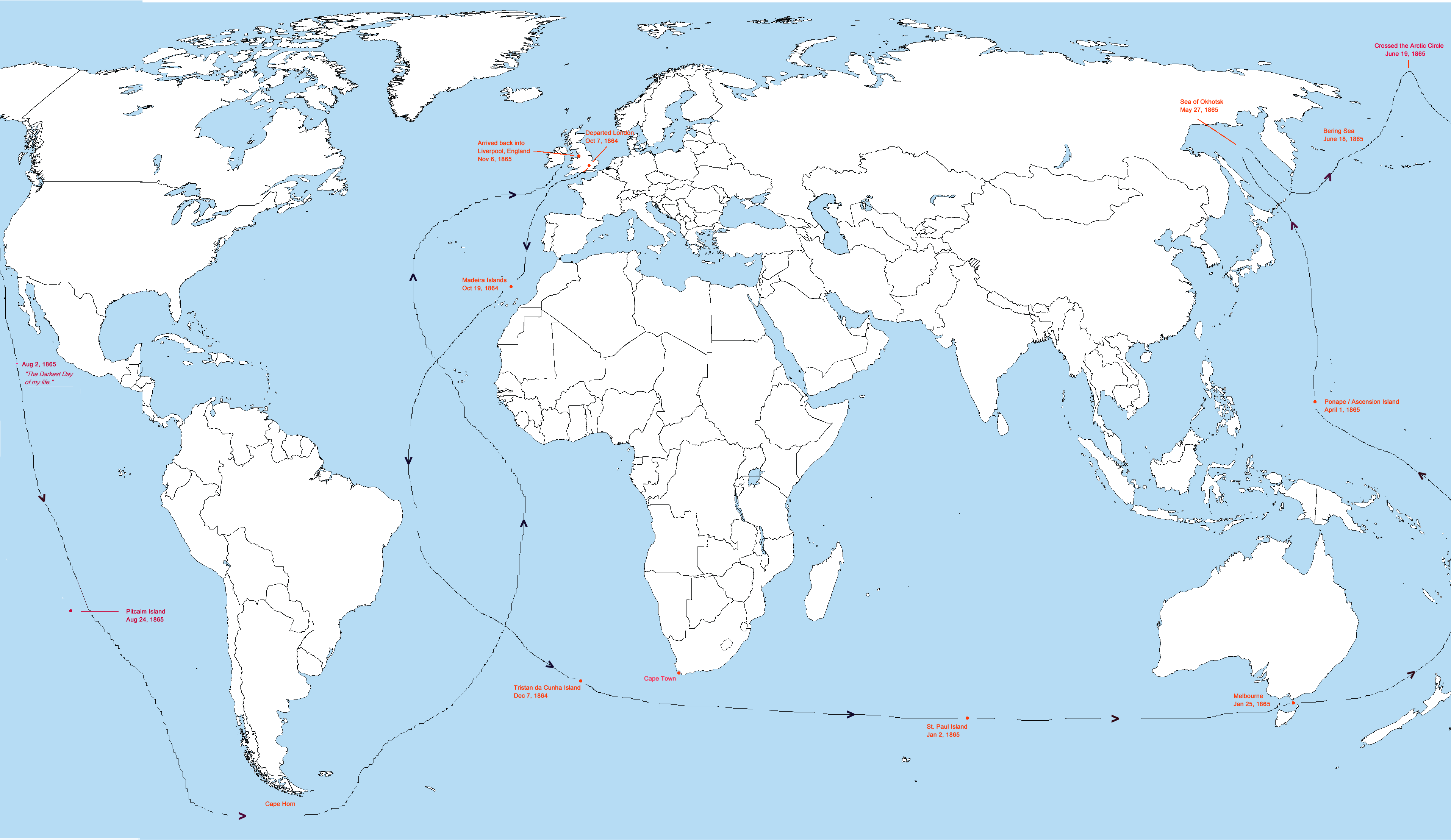 CSS Shenandoah world travels 1865. Route outline of the CSS Shenandoah world travels 1865